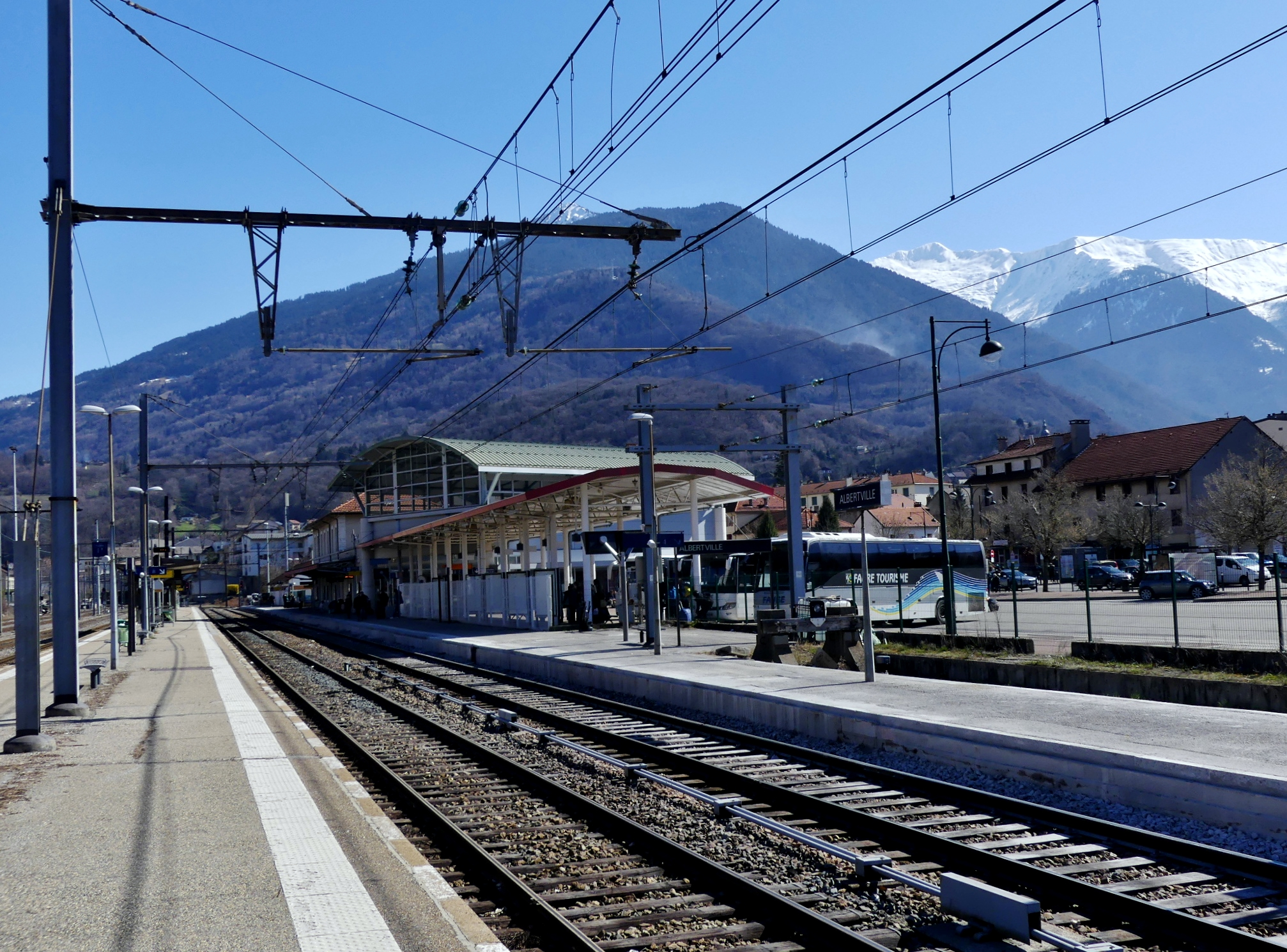 Sight, from the central platform, of platforms, tracks and building of Albertville railway station, in Savoie, France.